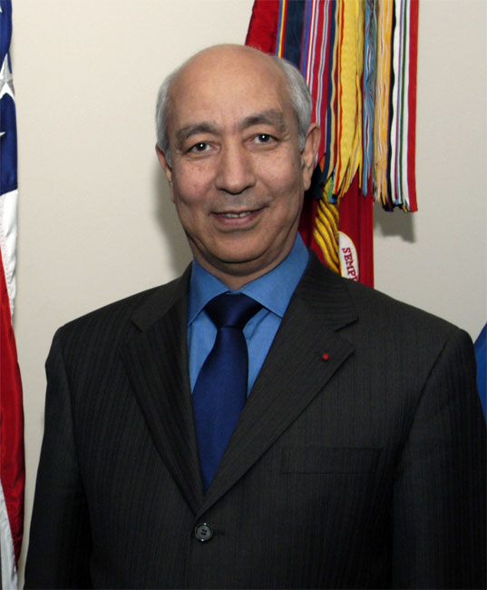 Prime Minister Driss Jettou of the Kingdom of Morocco poses for photographs prior to his meeting with Secretary of Defense Donald H. Rumsfeld in the Pentagon on Jan. 8, 2004. The two leaders are meeting to discuss defense issues of mutual interest.